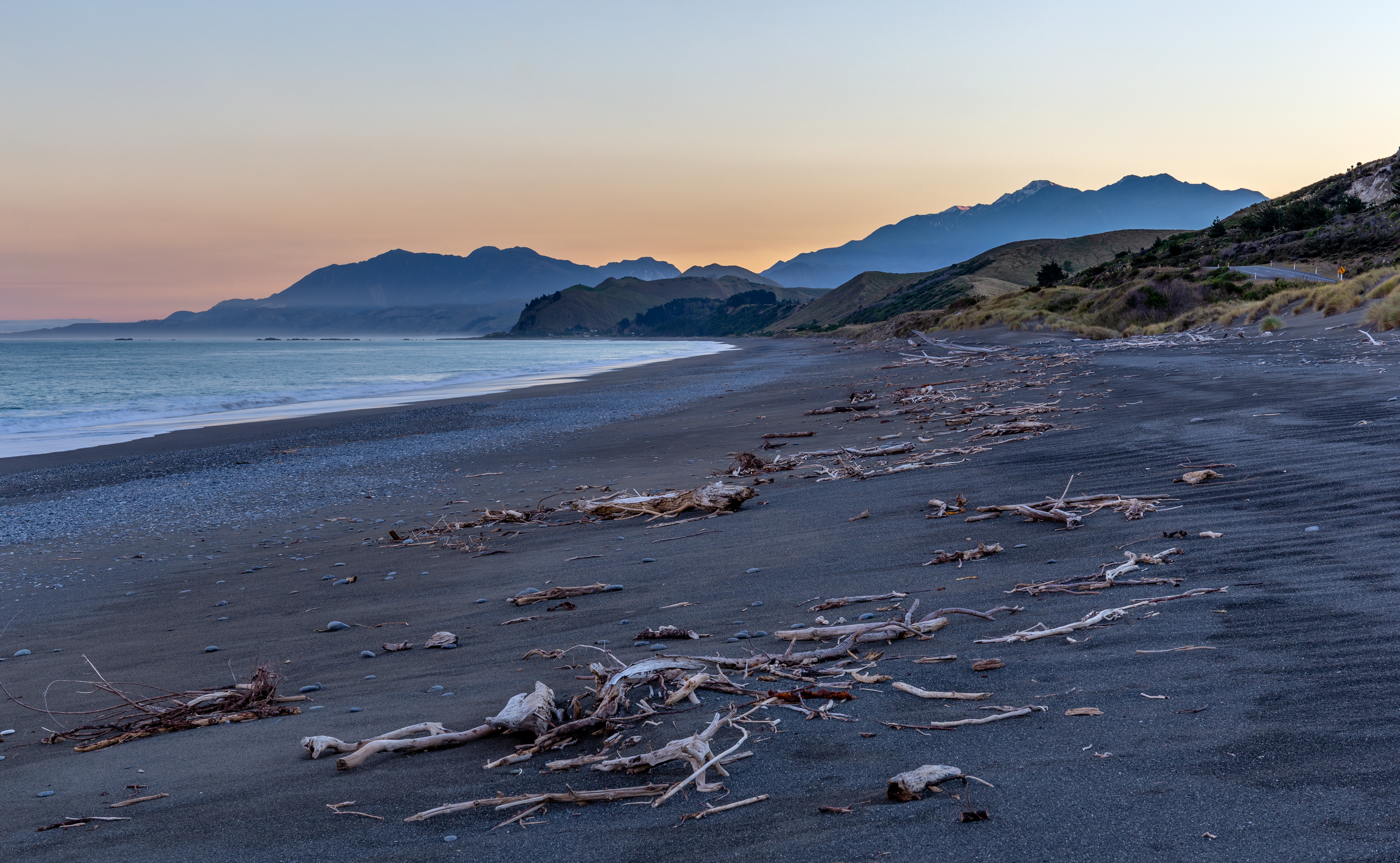 Black sand beach north of Kaikoura, Canterbury, New Zealand